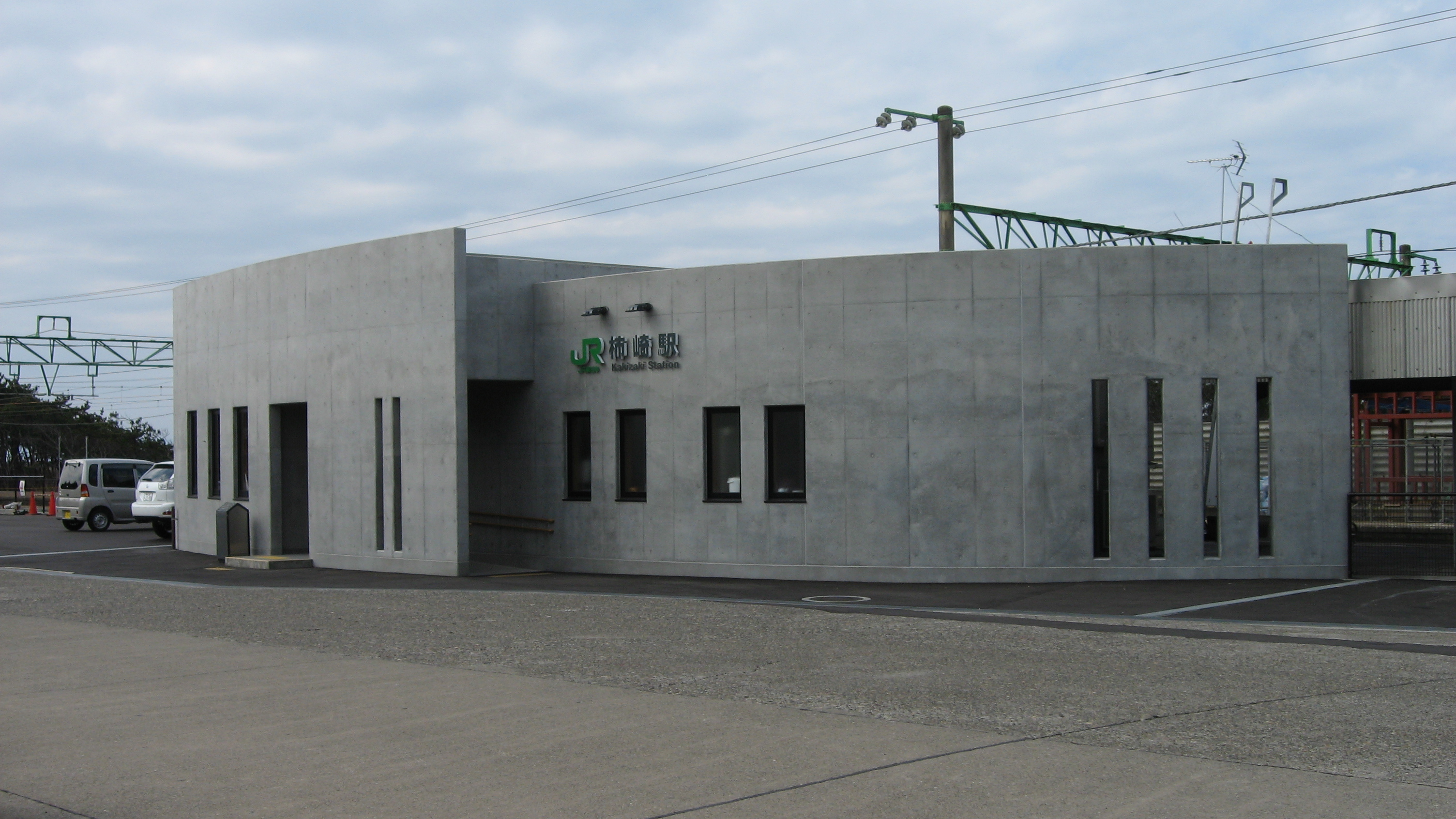 Kakizaki Station after rebuilding